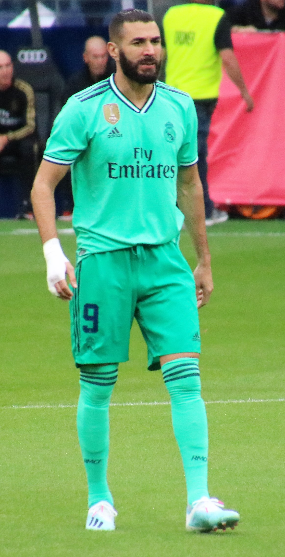 preseason match FC Salzburg